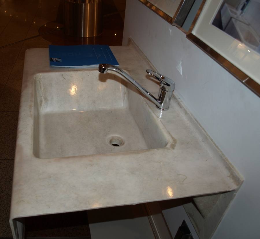 Washbasin made Nabasco, a polymer reinforced with natural fibres (hemp, flax).